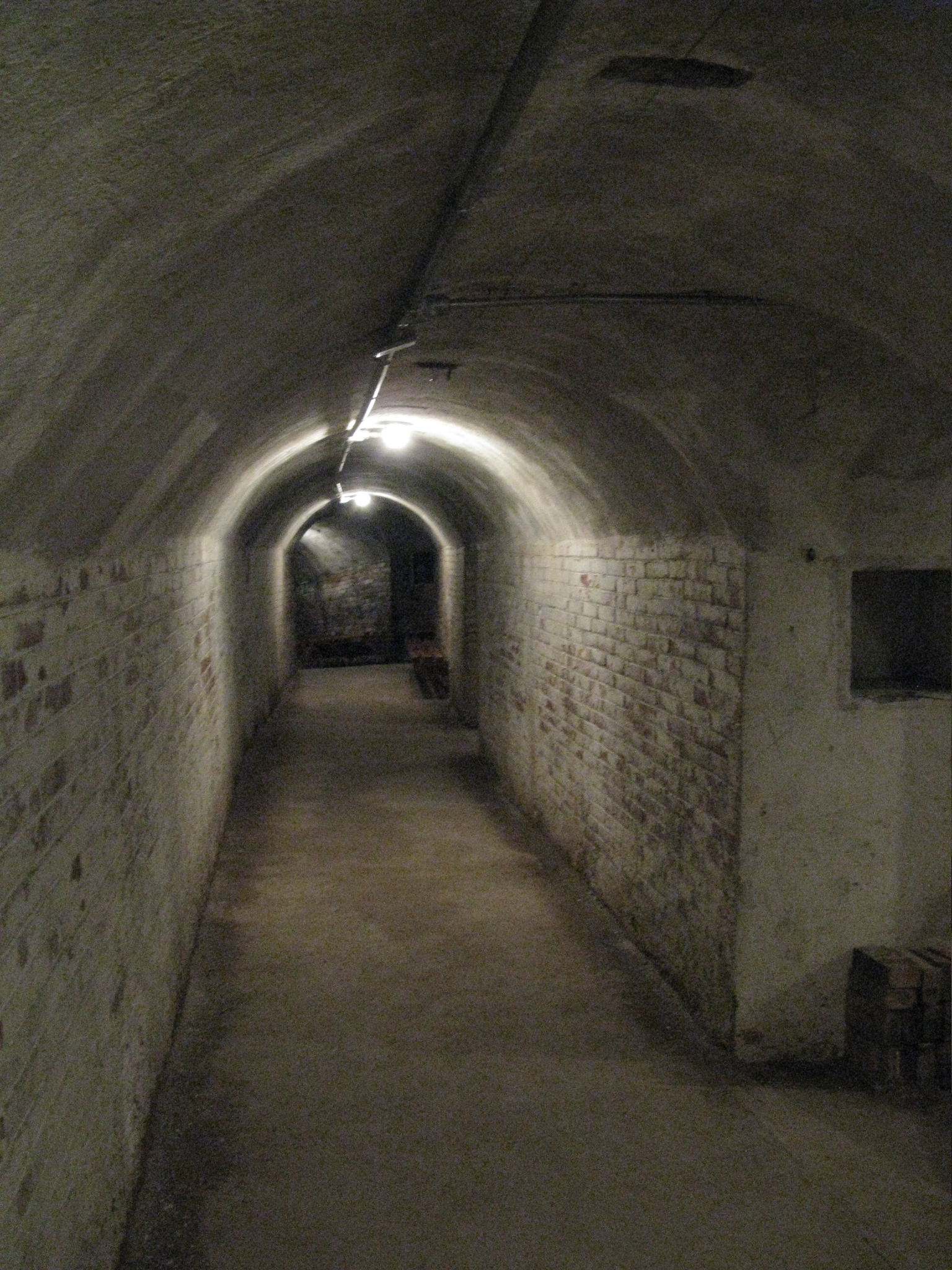 Refugio 307, Barcelona, Spain